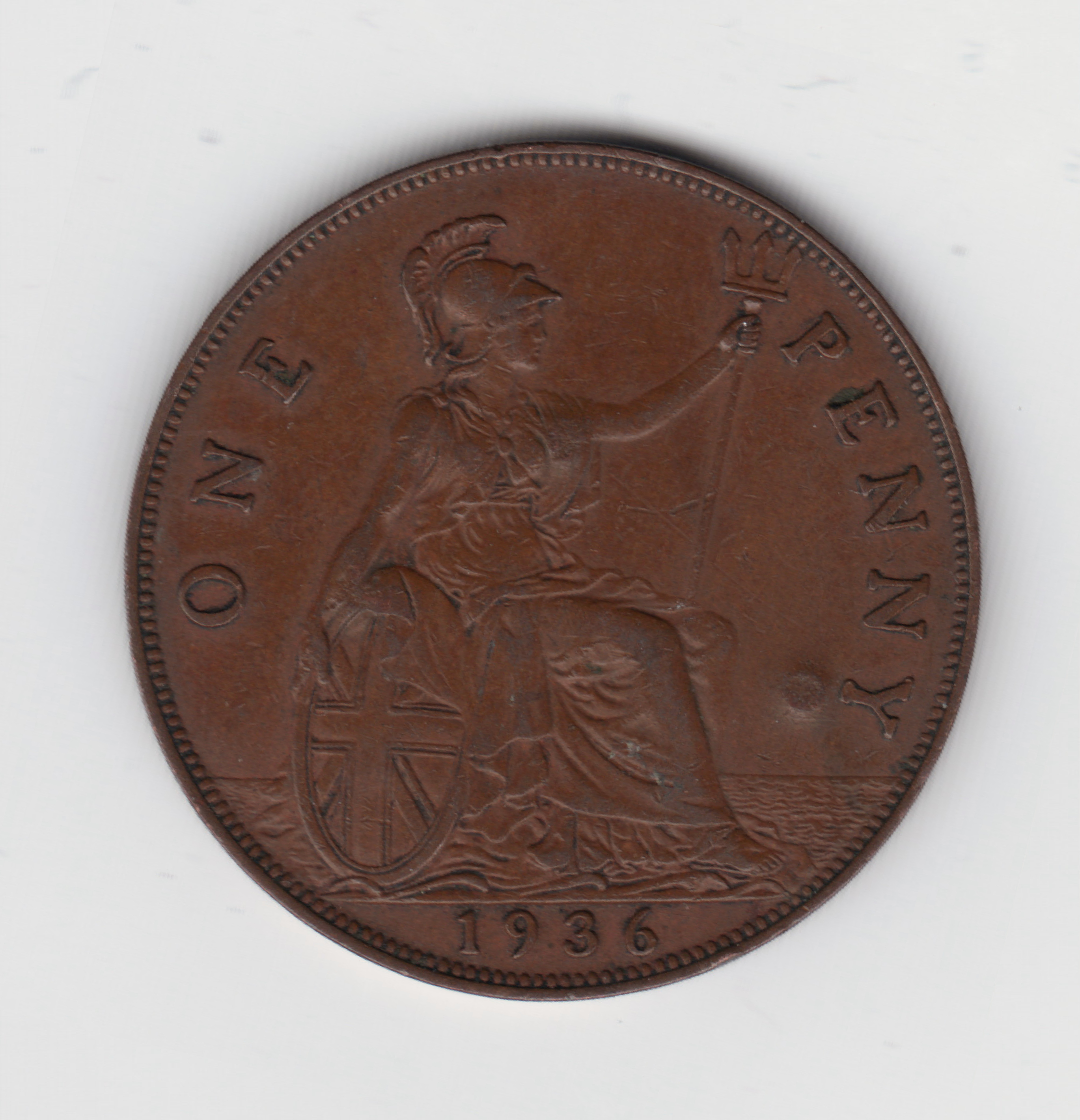 Scan of the reverse of a 1936 George V U.K. penny